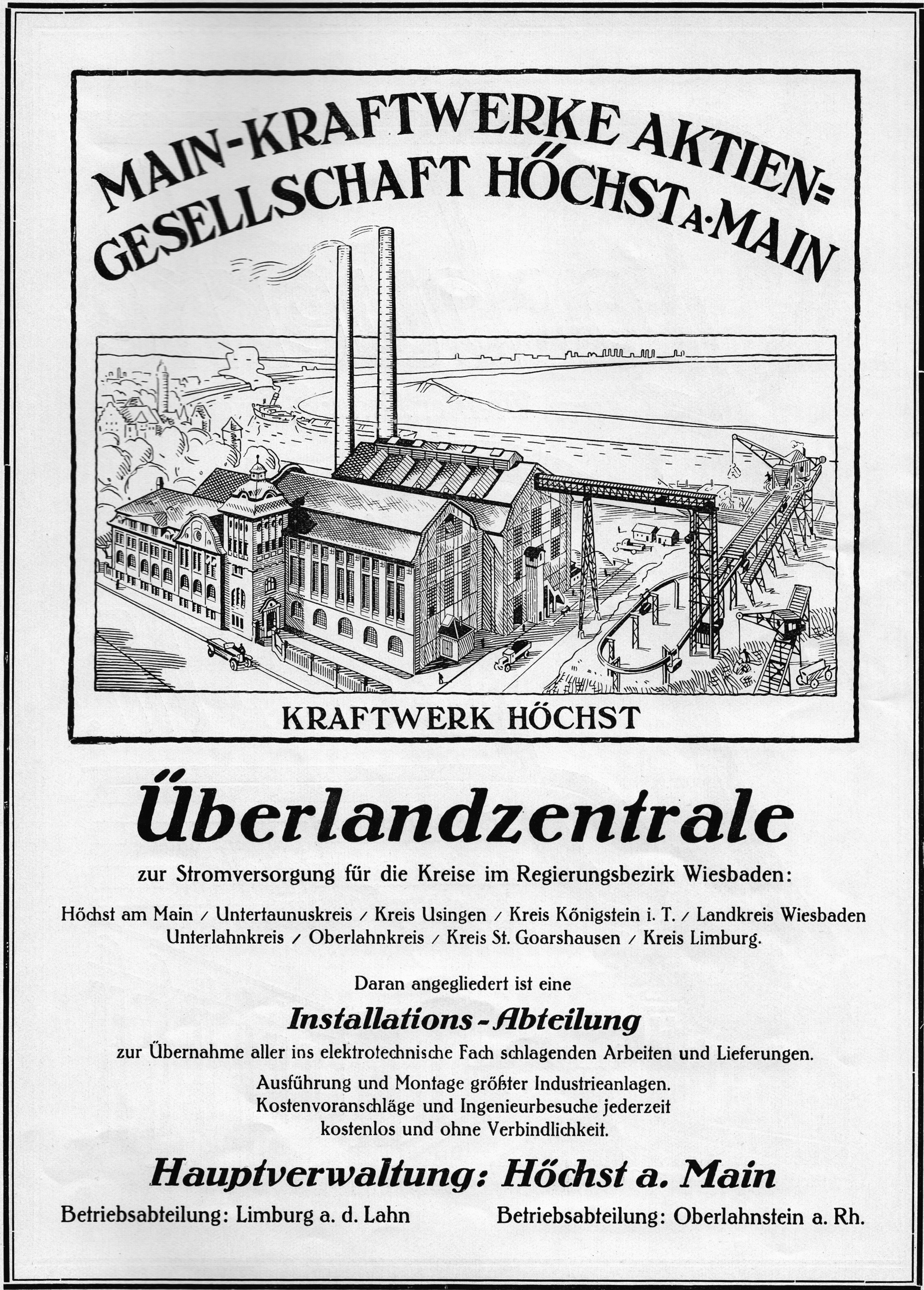 Advertisement of the Mainkraftwerke in Höchst am Main from 1925